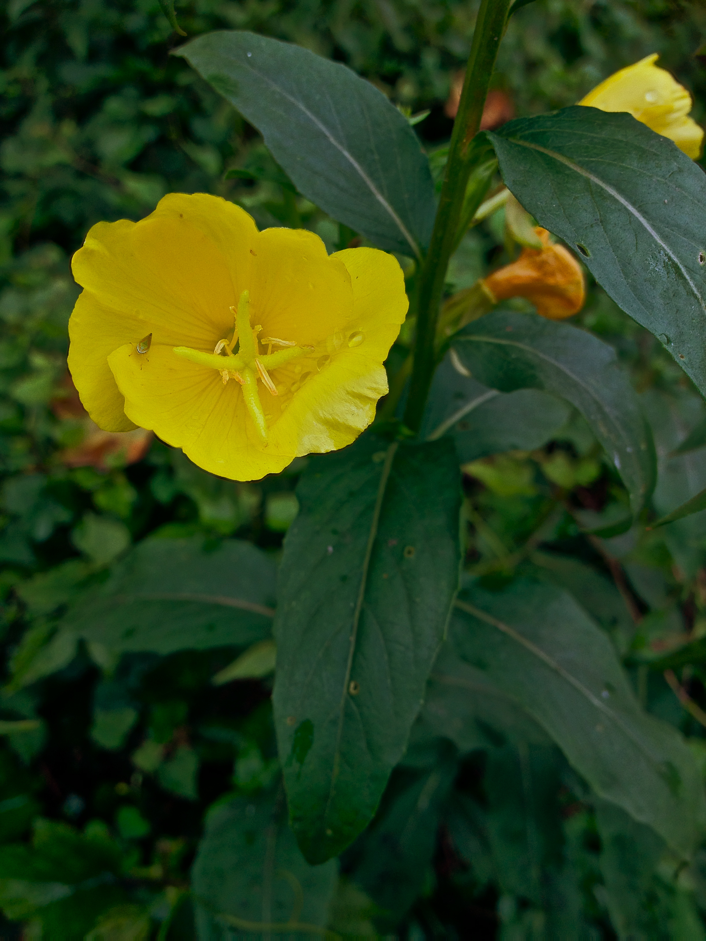 Photo of Oenothera biennis in flower. This is a native plant growing wild in Rock Creek Park, Washington, D.C., USA. This species is a member of the Onagraceae family.